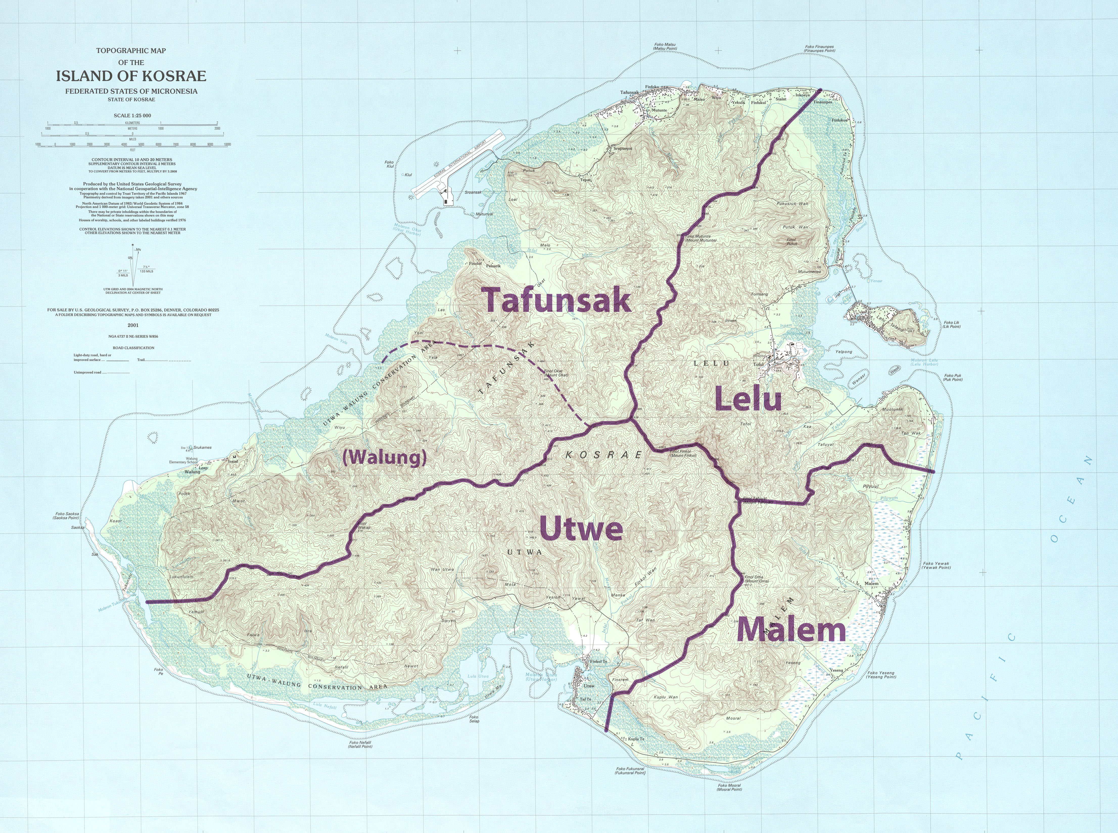 Municipalities (with former municipality of Walung) of Kosrae, Federated States of Micronesia